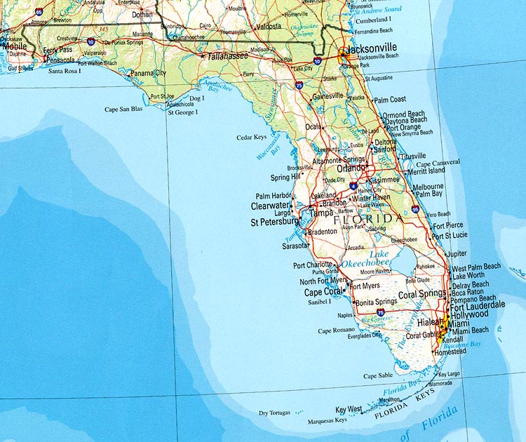 Karte Floridas. Aus der Perry Castaned Lib. Public Domain Bildbeschreibung: Referenzkarte des US-Bundesstaates Florida Quelle: Perrry-Castañeda-Library der University of Texas * Fotograf/Zeichner: Shaded relief map with state boundaries, forest cover, place names, major highways. Portion of "The National Atlas of the United States of America. General Reference", compiled by U.S. Geological Survey 2001, printed 2002 Datum: 2001 Lizenz: 12:22, 3. Sep 2004 Herrick 750 x 630 (171429 Byte) (Karte Floridas. Aus der Perry Castaned Lib. Public Domain)